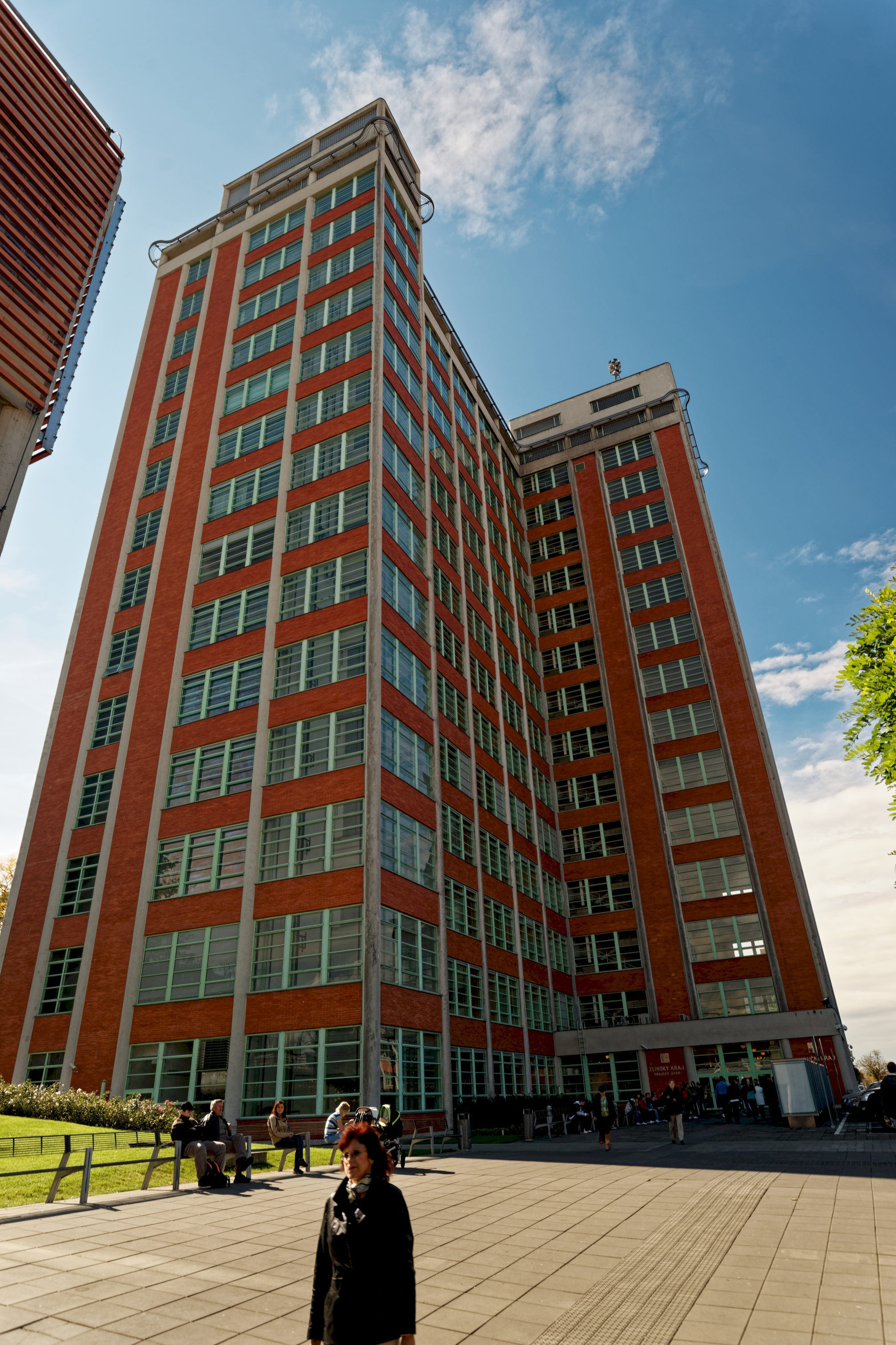 Zlín - J.A. Bati - View WSW on Baťův mrakodrap / Baťa's Skyscraper 1936-38 by Slovenian Architect Vladimír Karfík